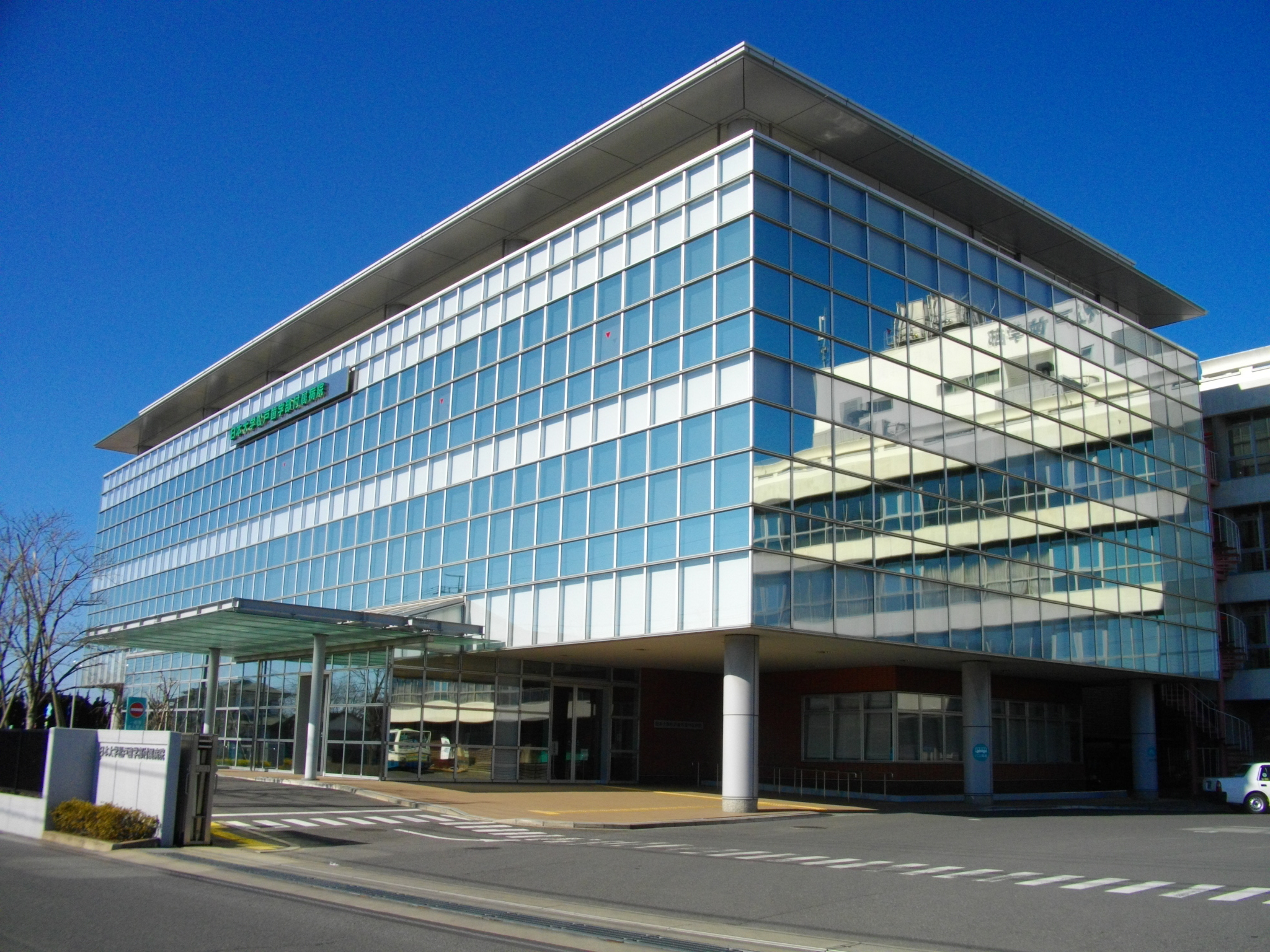 Nihon University School of Dentistry Dental Hospital